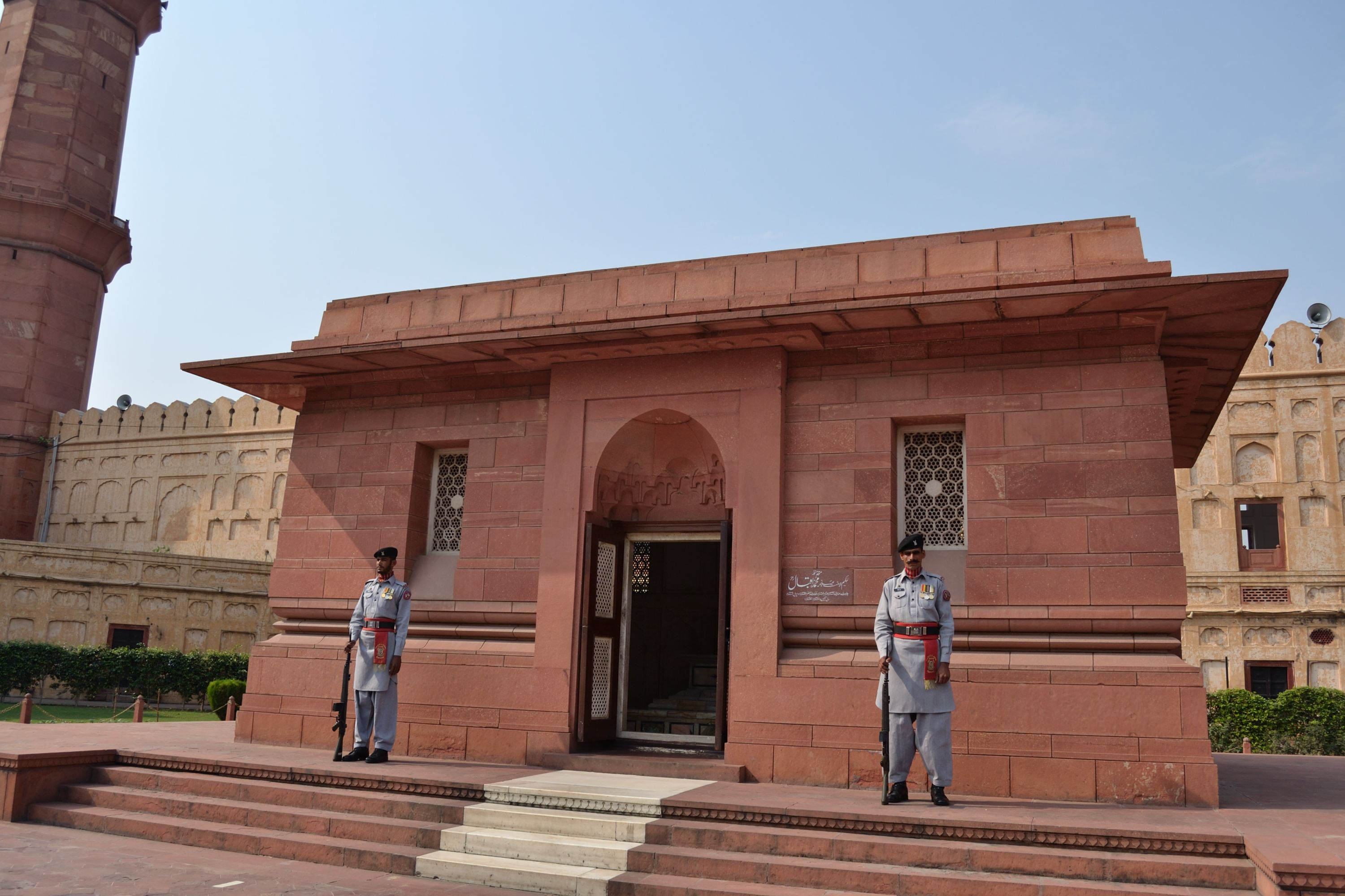 Muhammad Iqbal’s Tomb This is a photo of a monument in Pakistan identified as the PB-70